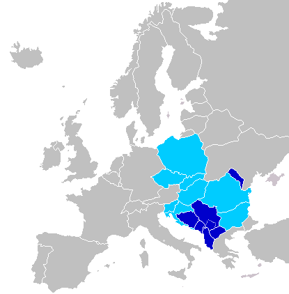 recent and former CEFTA members in 2013